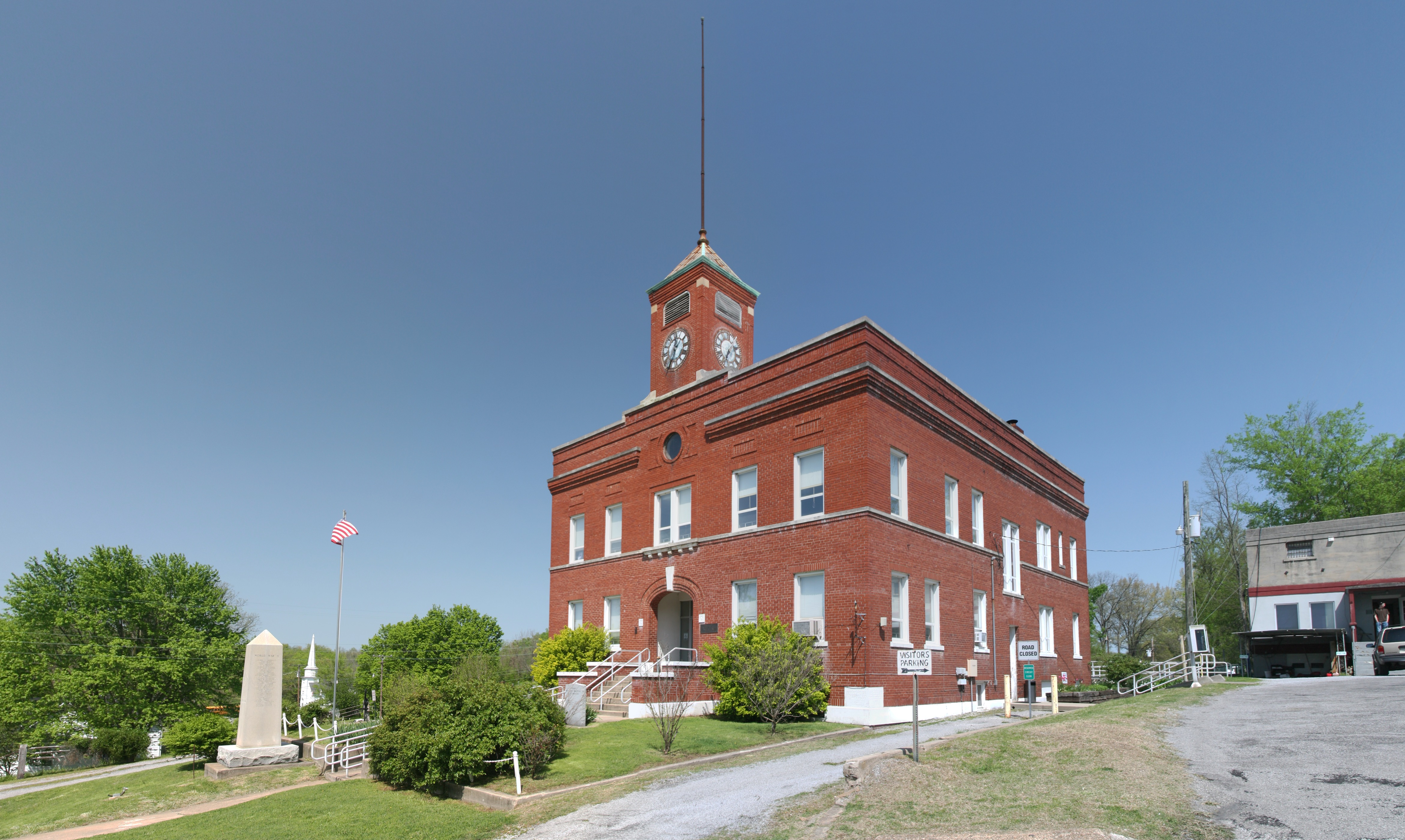 County courthouse in Elizabethtown, Illinois This image was created with Hugin.